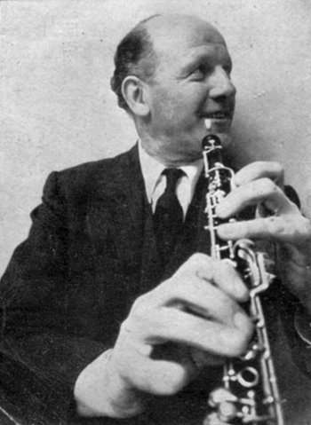 Copy of Photograph of Léon Goossens.